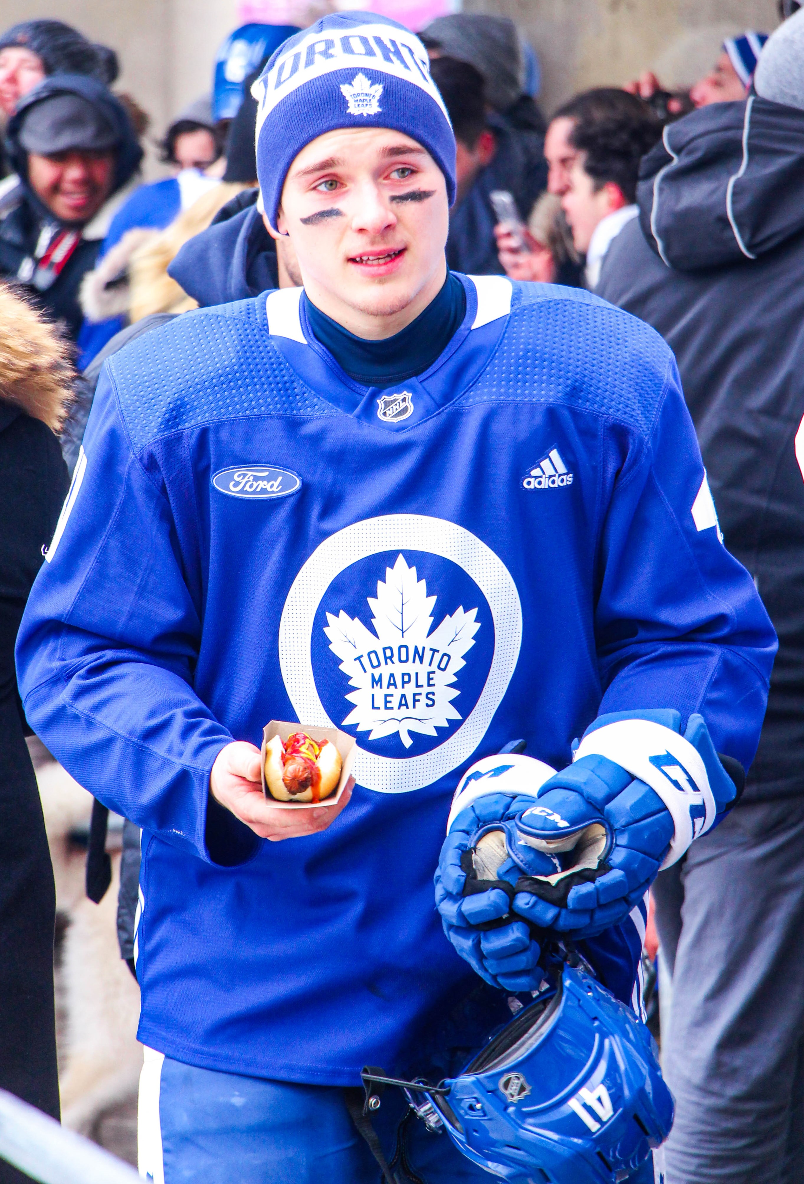 Dymtro Timadog.